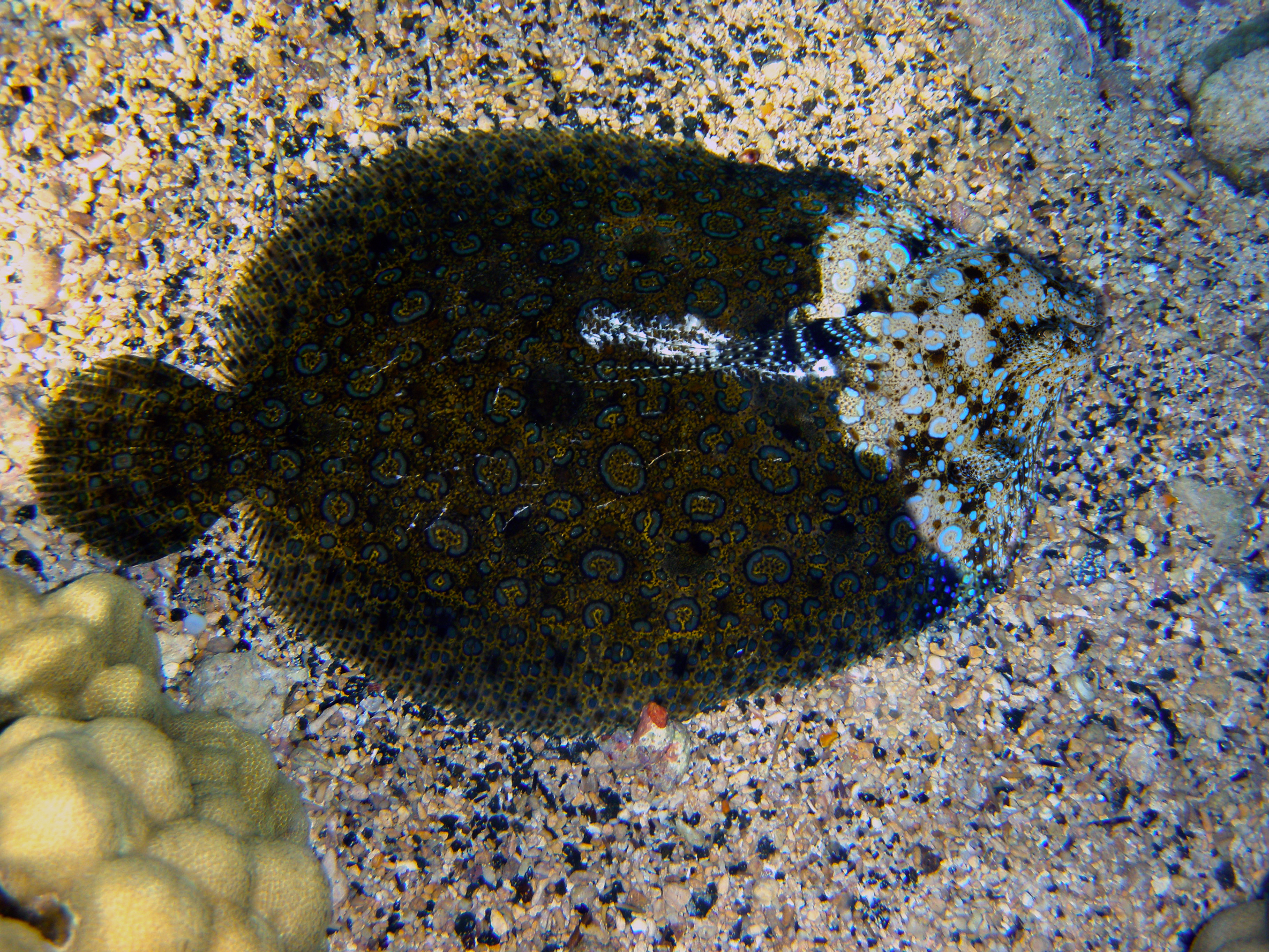 Bothus mancus in Kona, Hawaii